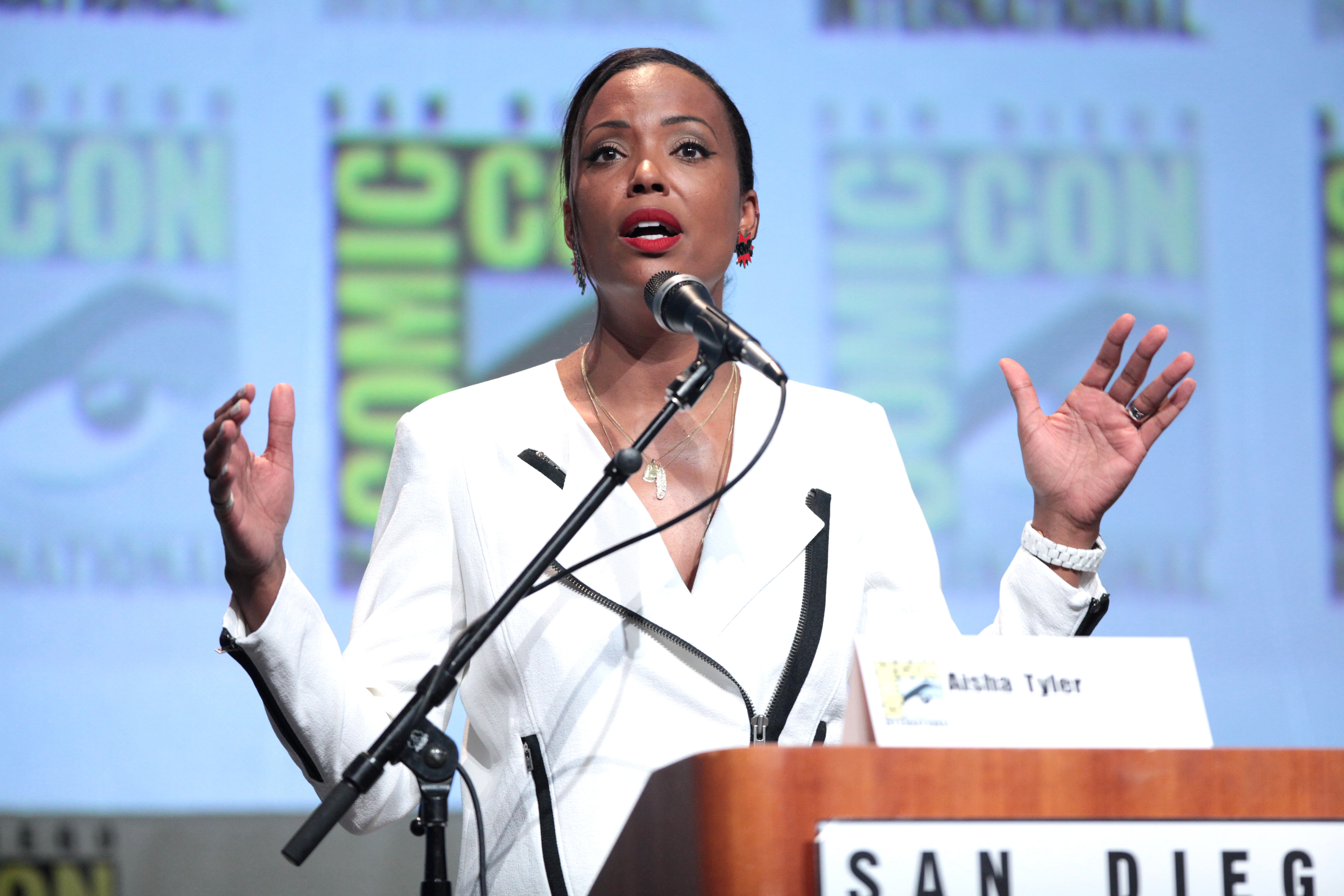 Aisha Tyler speaking at the 2015 San Diego Comic Con International at the San Diego Convention Center in San Diego, California.